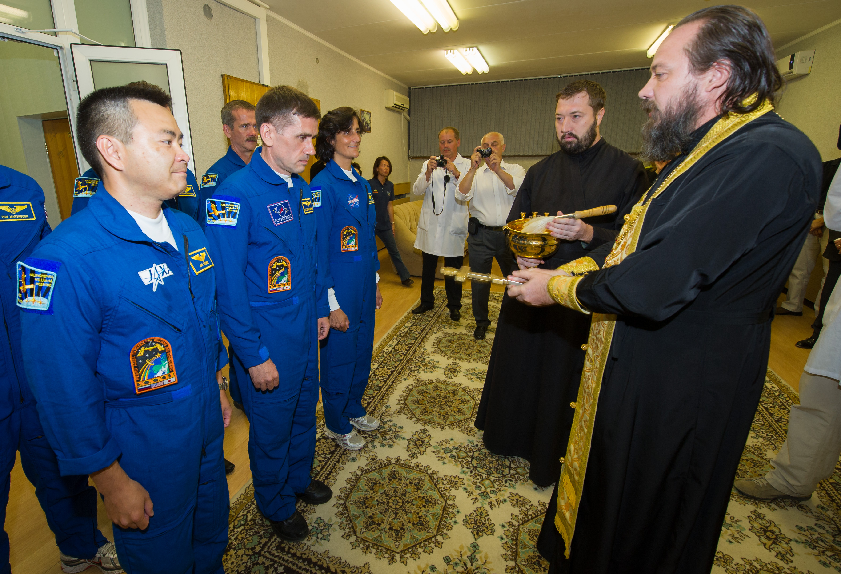 Expedition 32 crew members JAXA Flight Engineer Akihiko Hoshide, left, Soyuz Commander Yuri Malenchenko and NASA Flight Engineer Sunita Williams, third from left, prepare to receive the traditional blessing by an Orthodox priest at the Cosmonaut Hotel on Sunday, July 15, 2012 in Baikonur, Kazakhstan. The Soyuz spacecraft with Hoshide, Malenchenko and Williams aboard launched that morning at 8:40 a.m. Kazakhstan time.